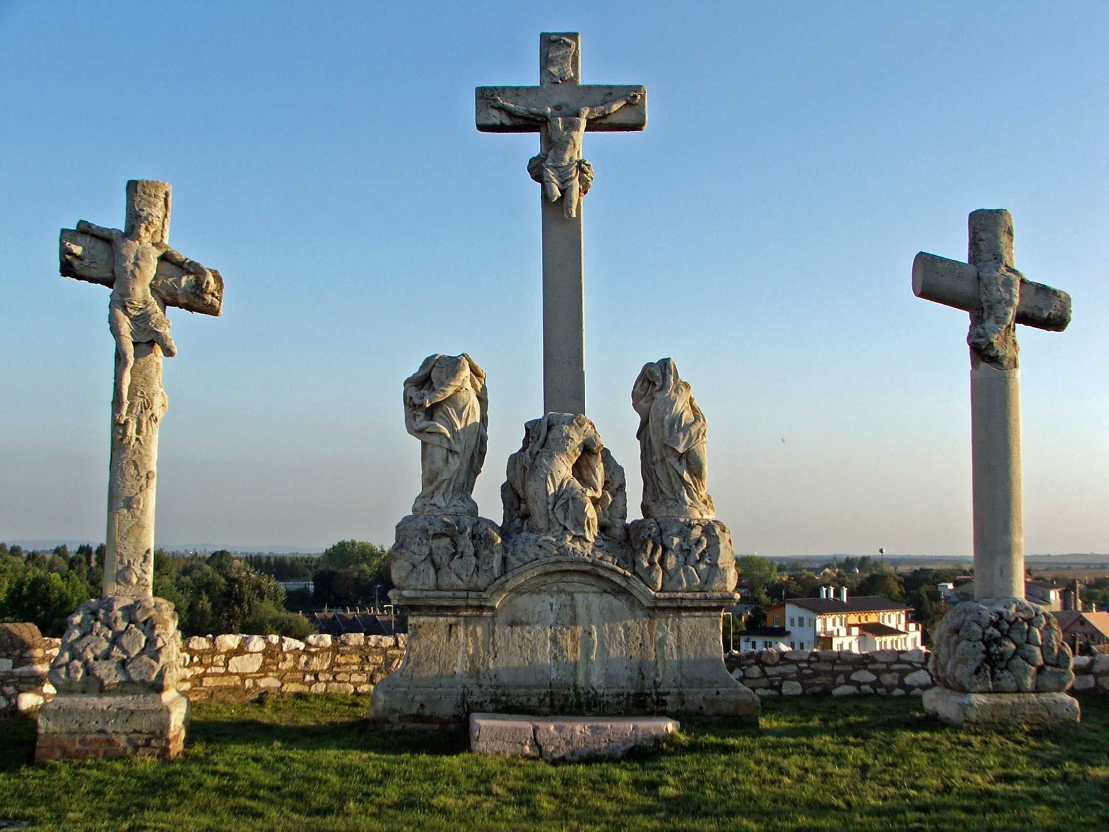 Golgota in Calvary Hill, Tata This is a photo of a monument in Hungary, Identifier: 6433